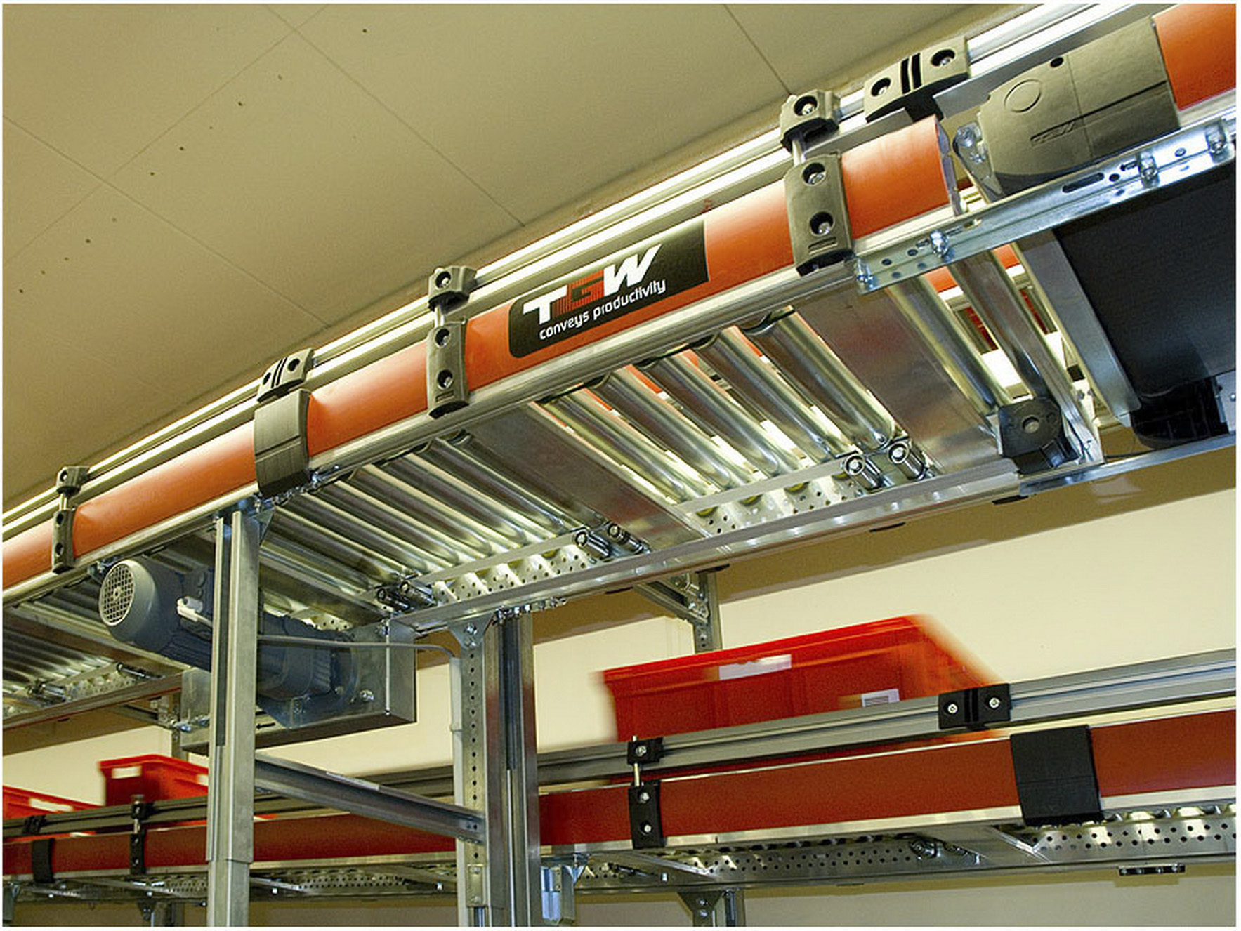 roller conveyor for totes / bins / containers and cartons up to 50 kg working load